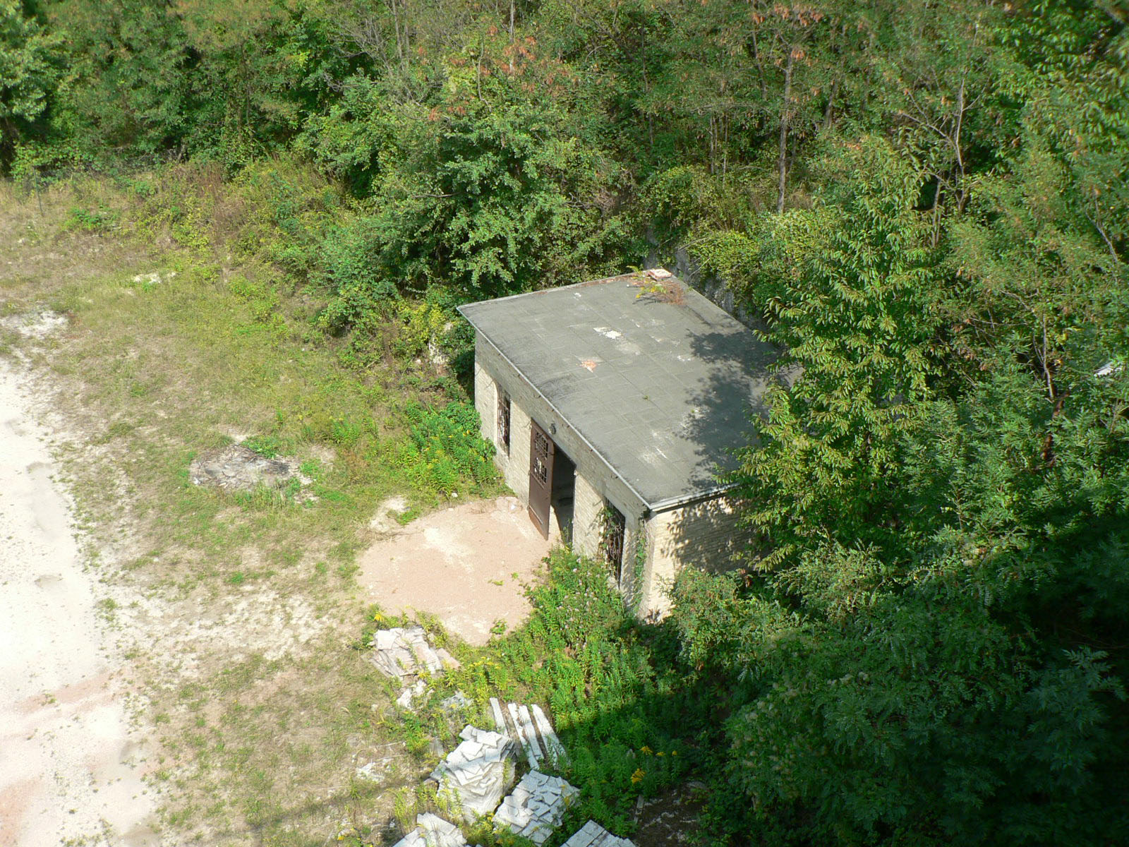 Ebből az épületből nyílik a Solymár-aknai segédtáró